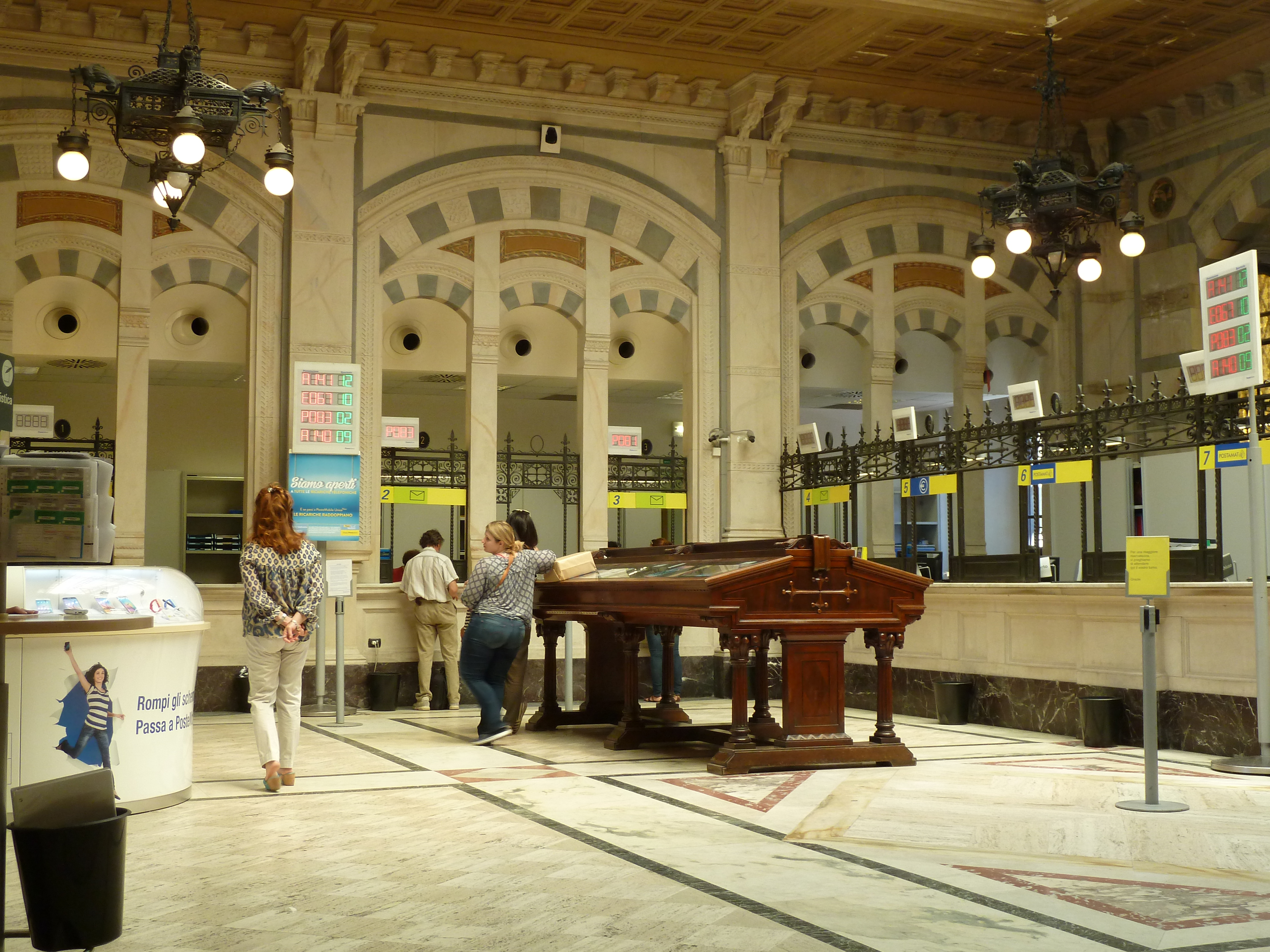 Main Post Office Pisa, Italy 2015